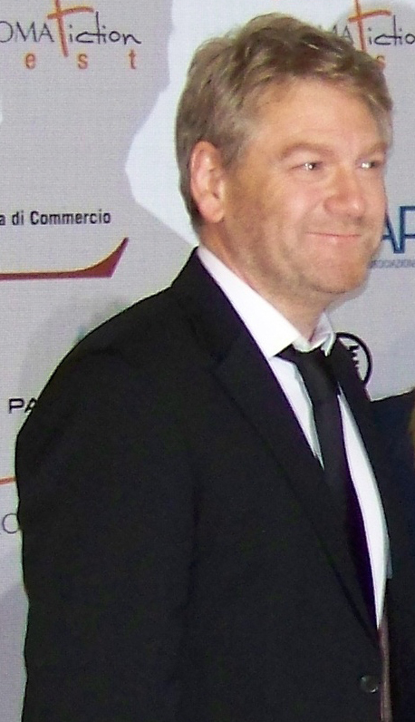 Kenneth Branagh at the 2009 Roma Fiction Fest.